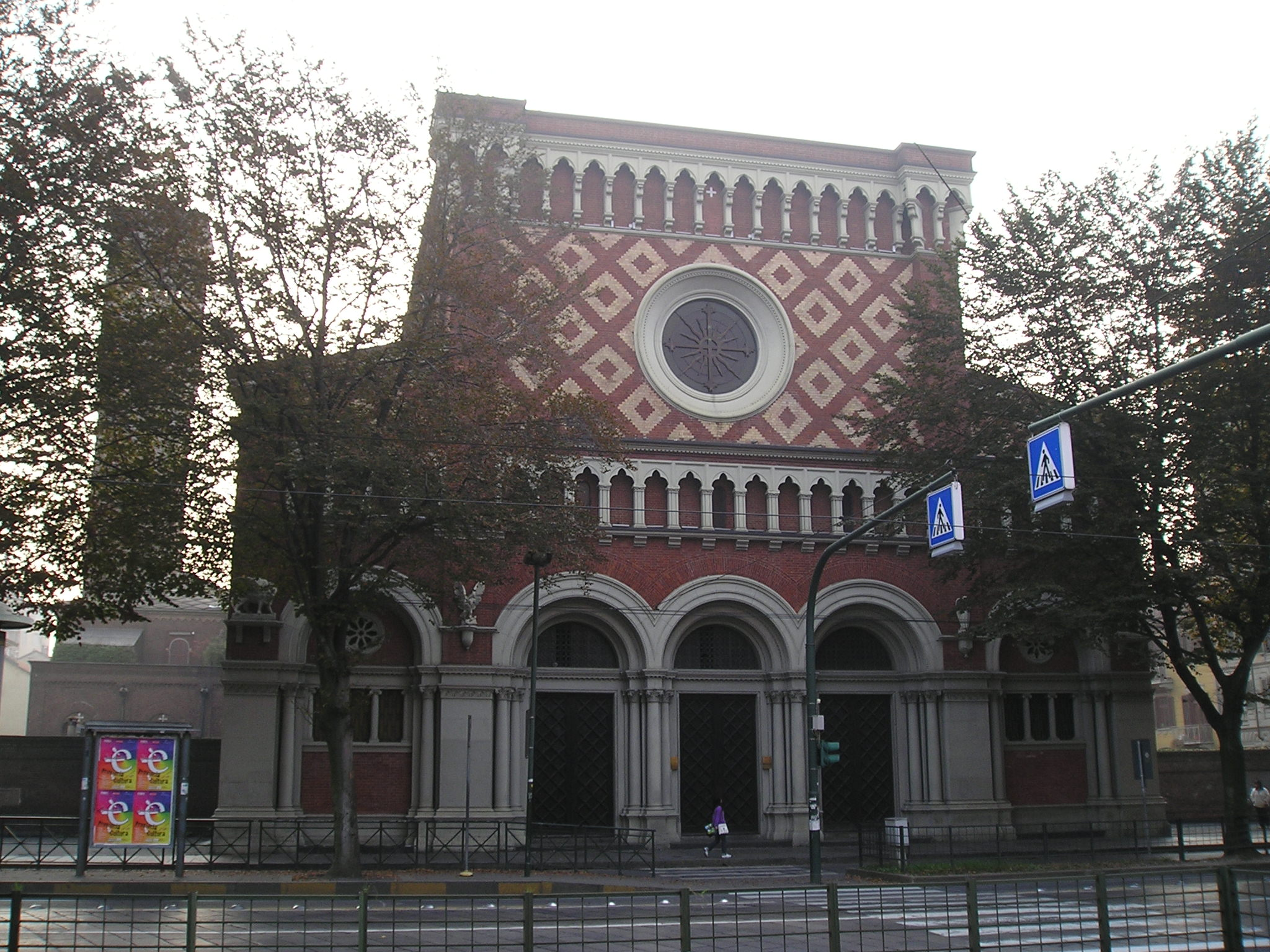 San Gioacchino church — Turin.